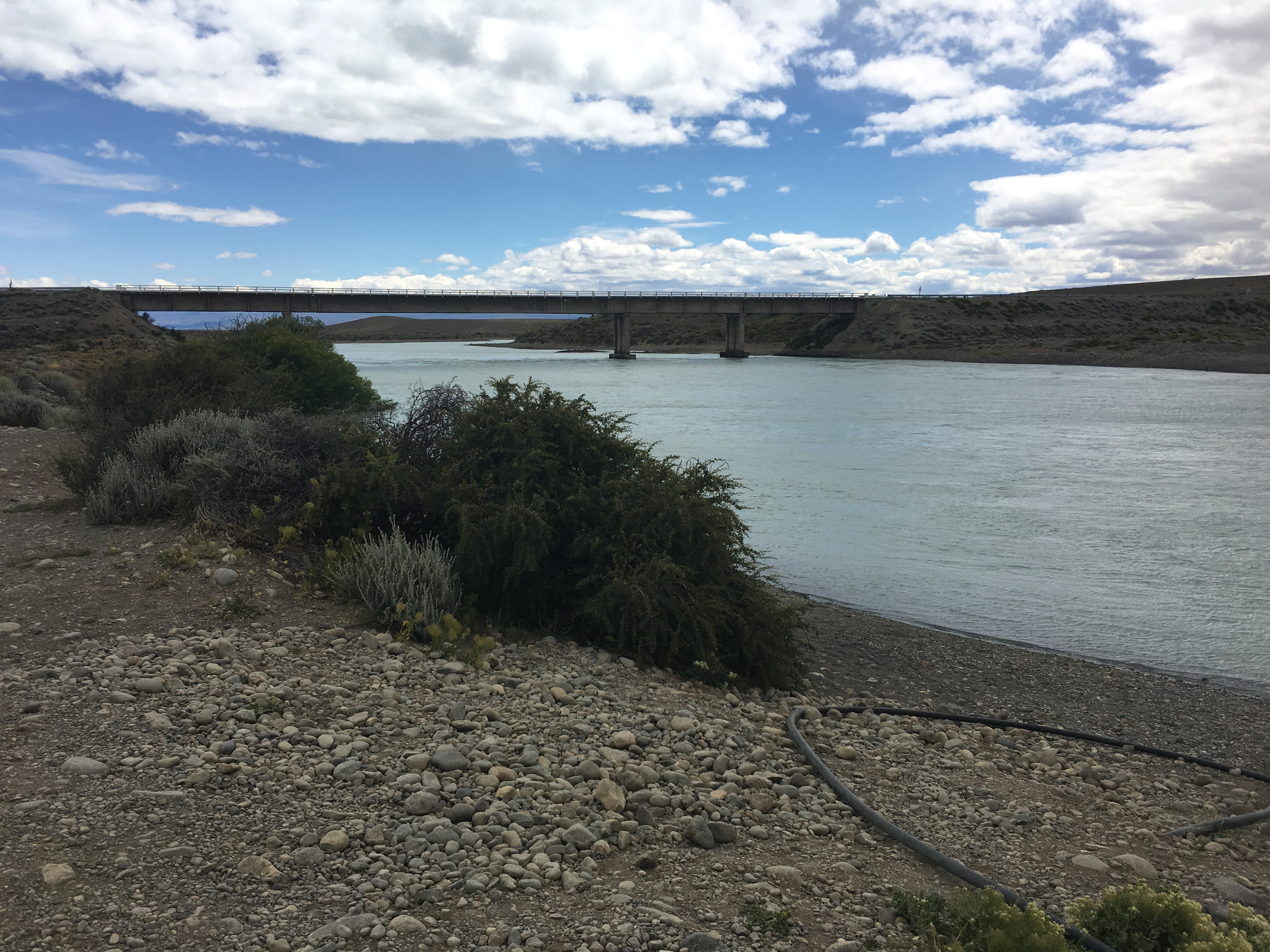 La Leona River, Argentina